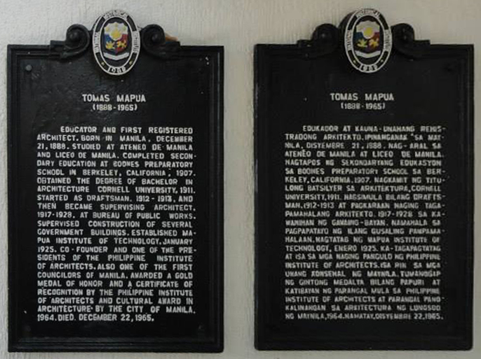 Tomas Mapua (1888 - 1965) marker